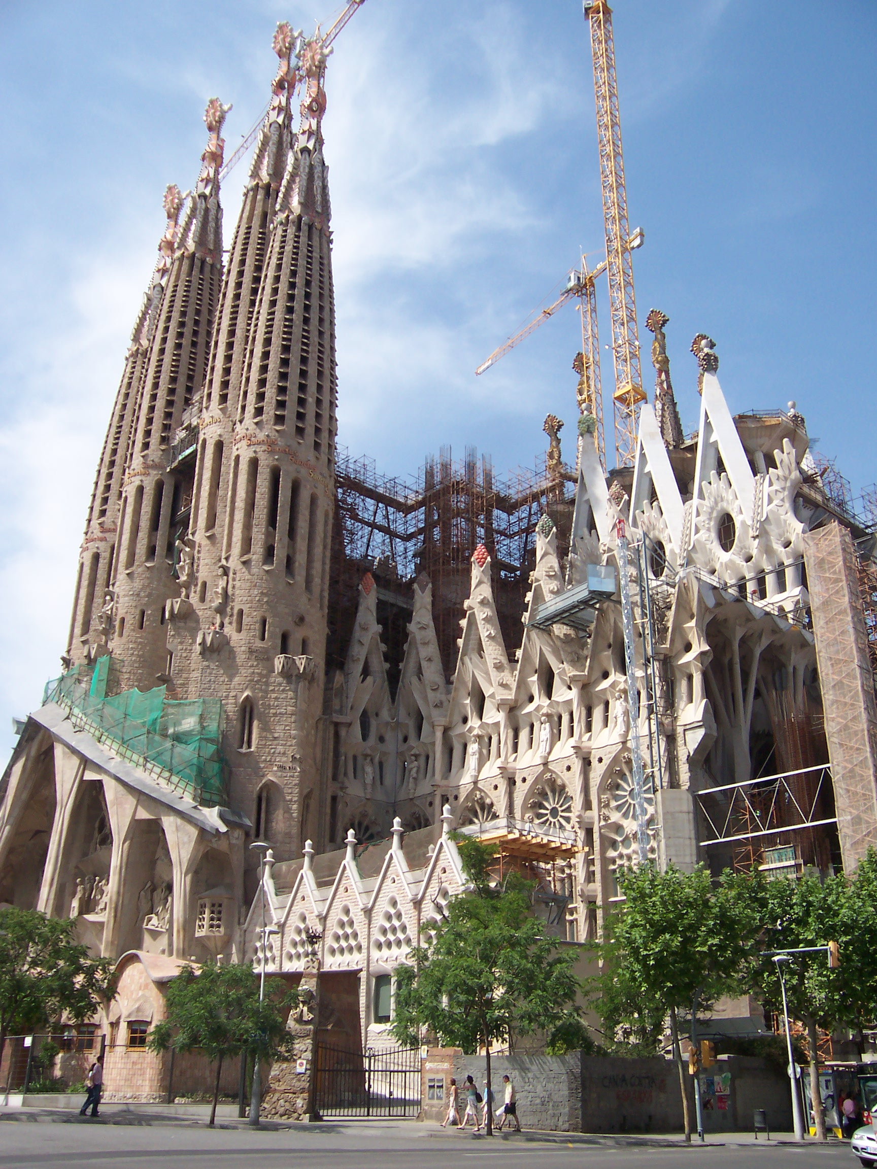 Sagrada Família of Barcelona, view from Mallorca-Sardenya.